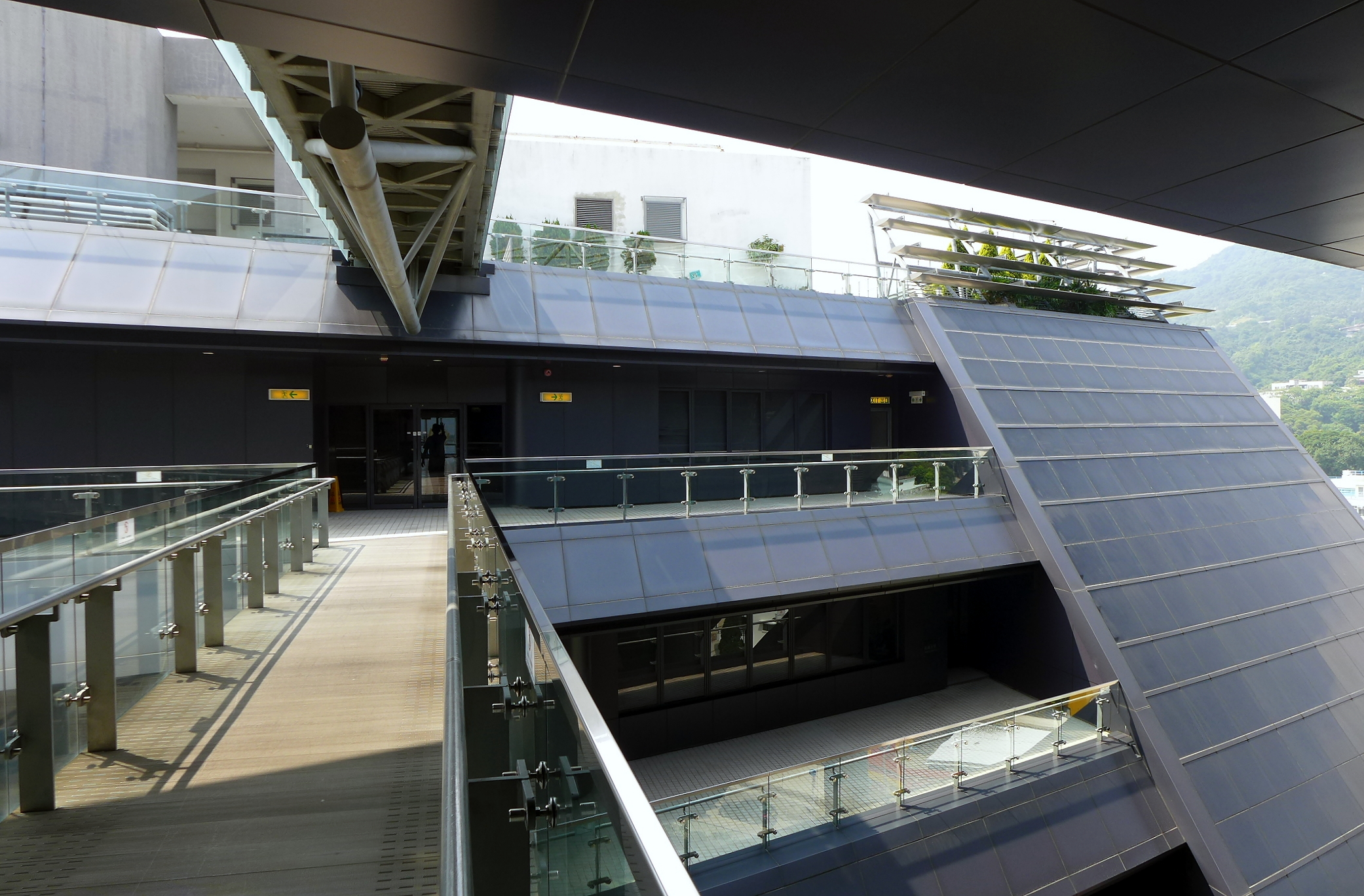 EDB Kowloon Tong Education Services Centre